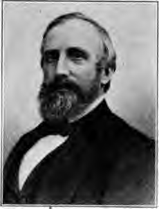 William S. Ladd From: From: Gray, William Henry. 1870. A history of Oregon, 1792-1849, drawn from personal observation and authentic information. Portland, Or: Harris & Holman.